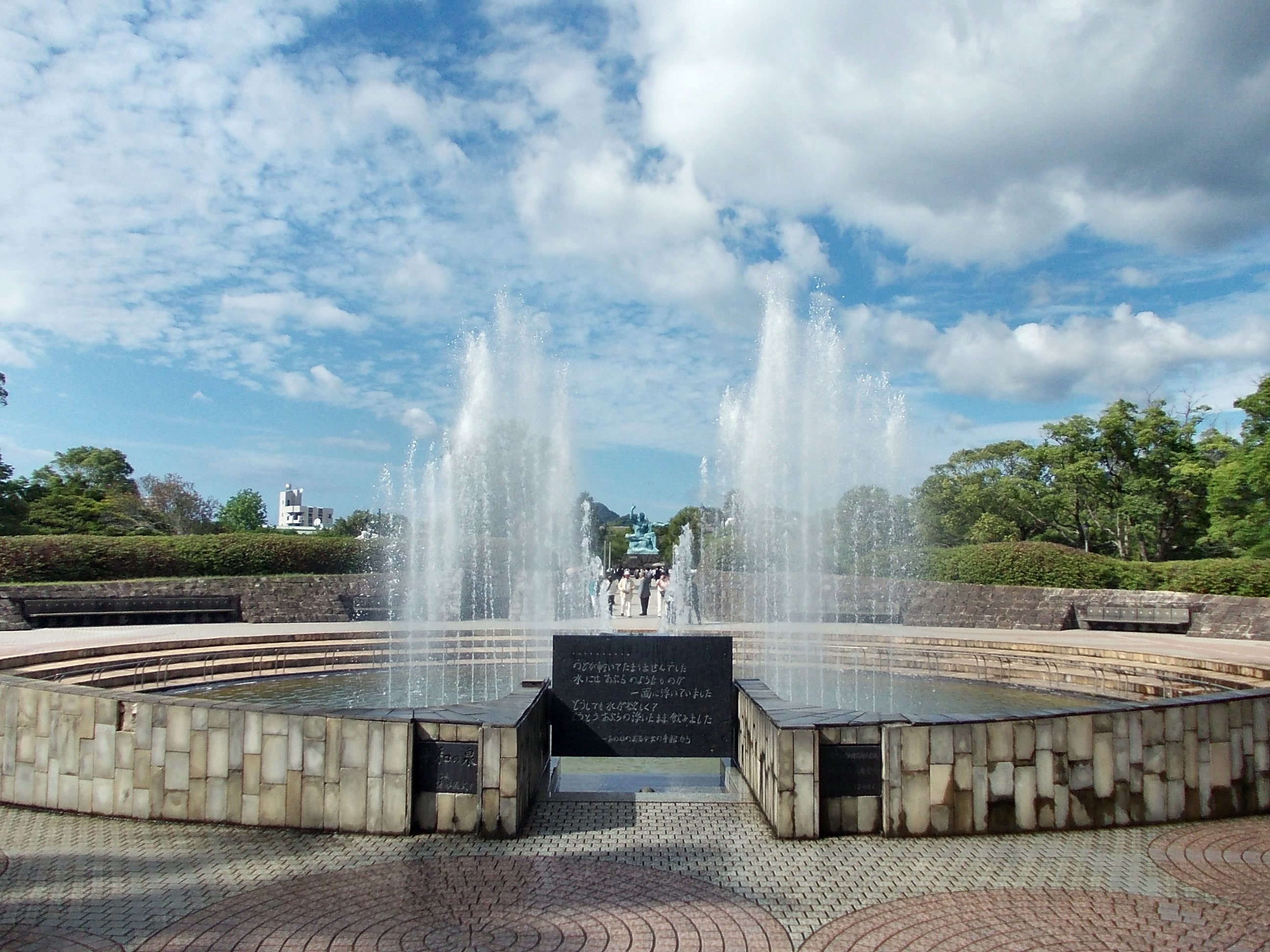 The fountain of peace in Nagasaki Peace Park, Japan.